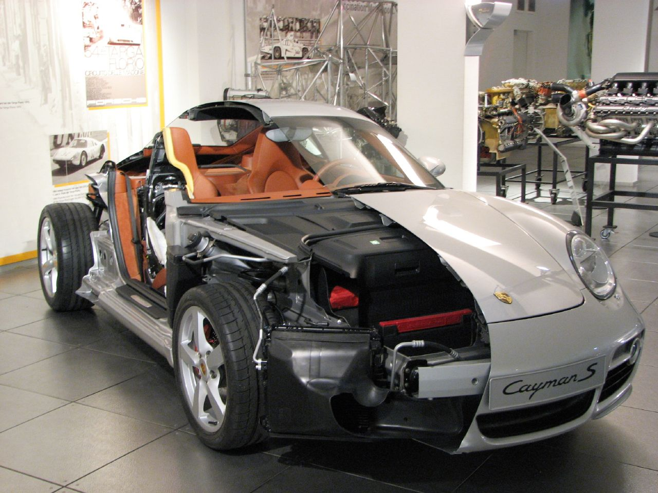 Porsche 987c Cayman S cutaway model.stuttgart 119